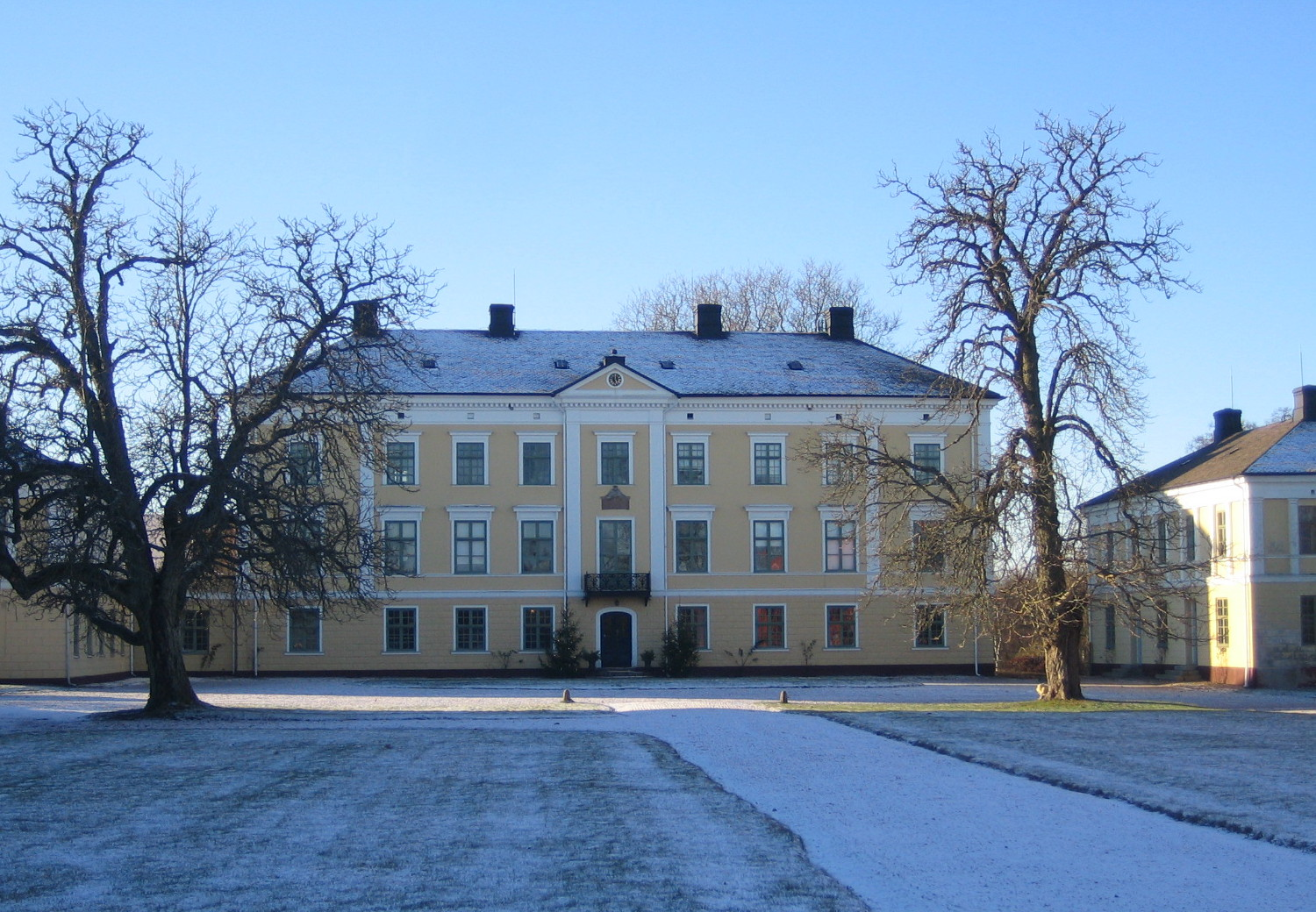 Börringekloster castle, Scania, Sweden.